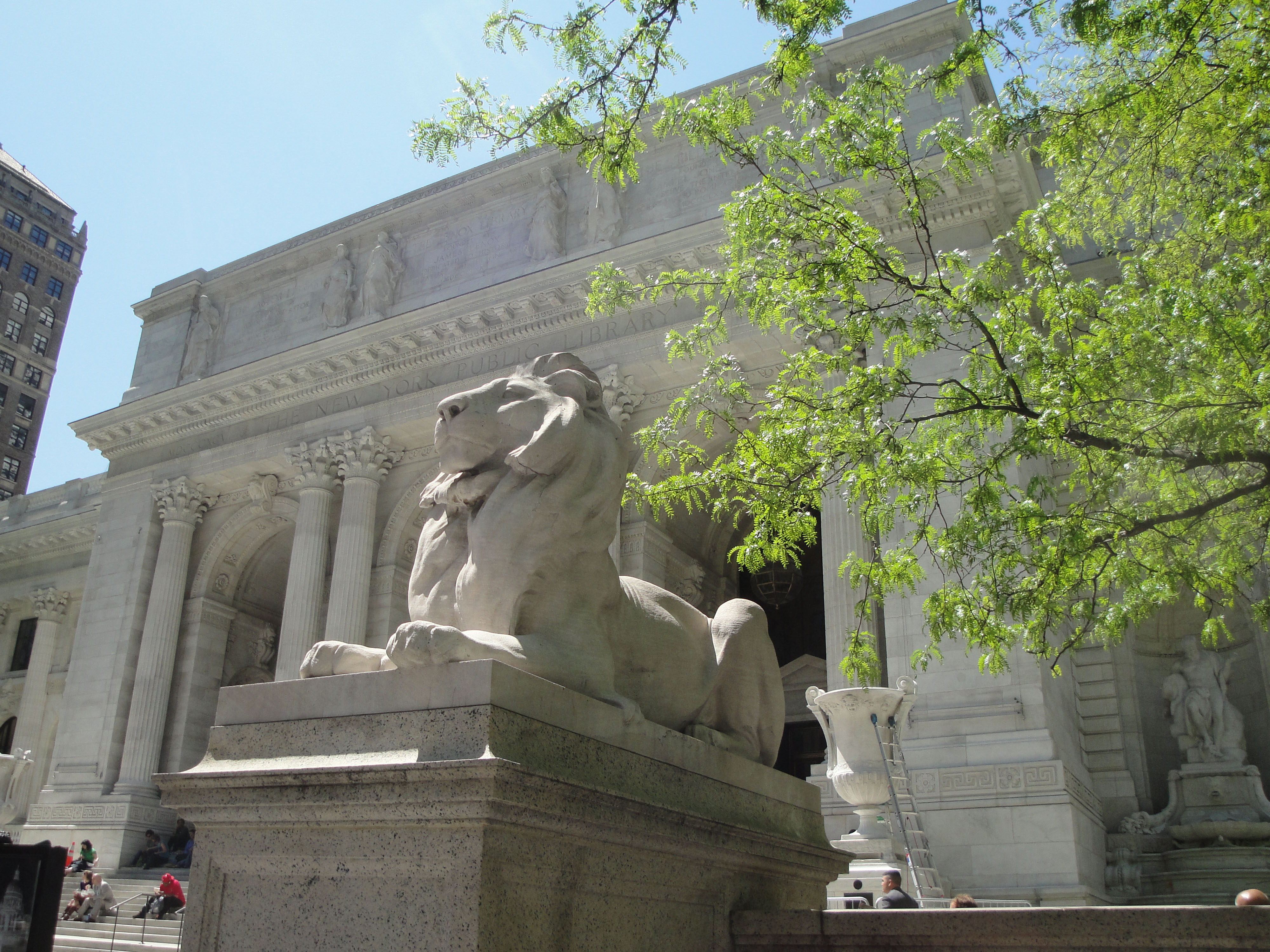 One of the two lions outside the main branch of the New York Public Library.